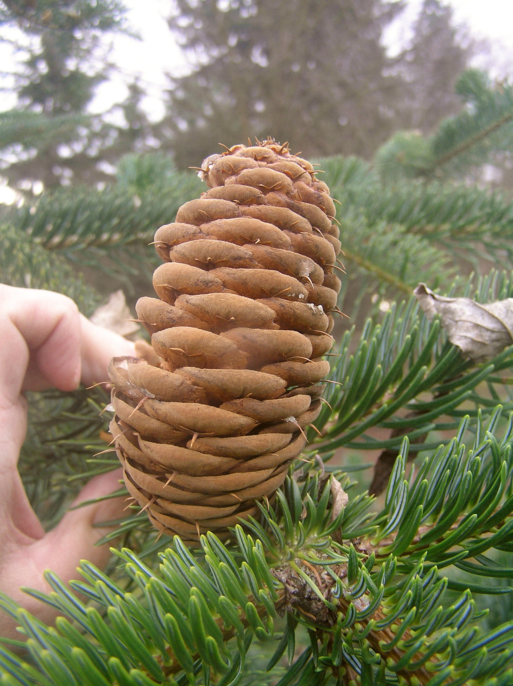 Abies cephalonica, cultivated in the Czech Republic, arboretum Žampach